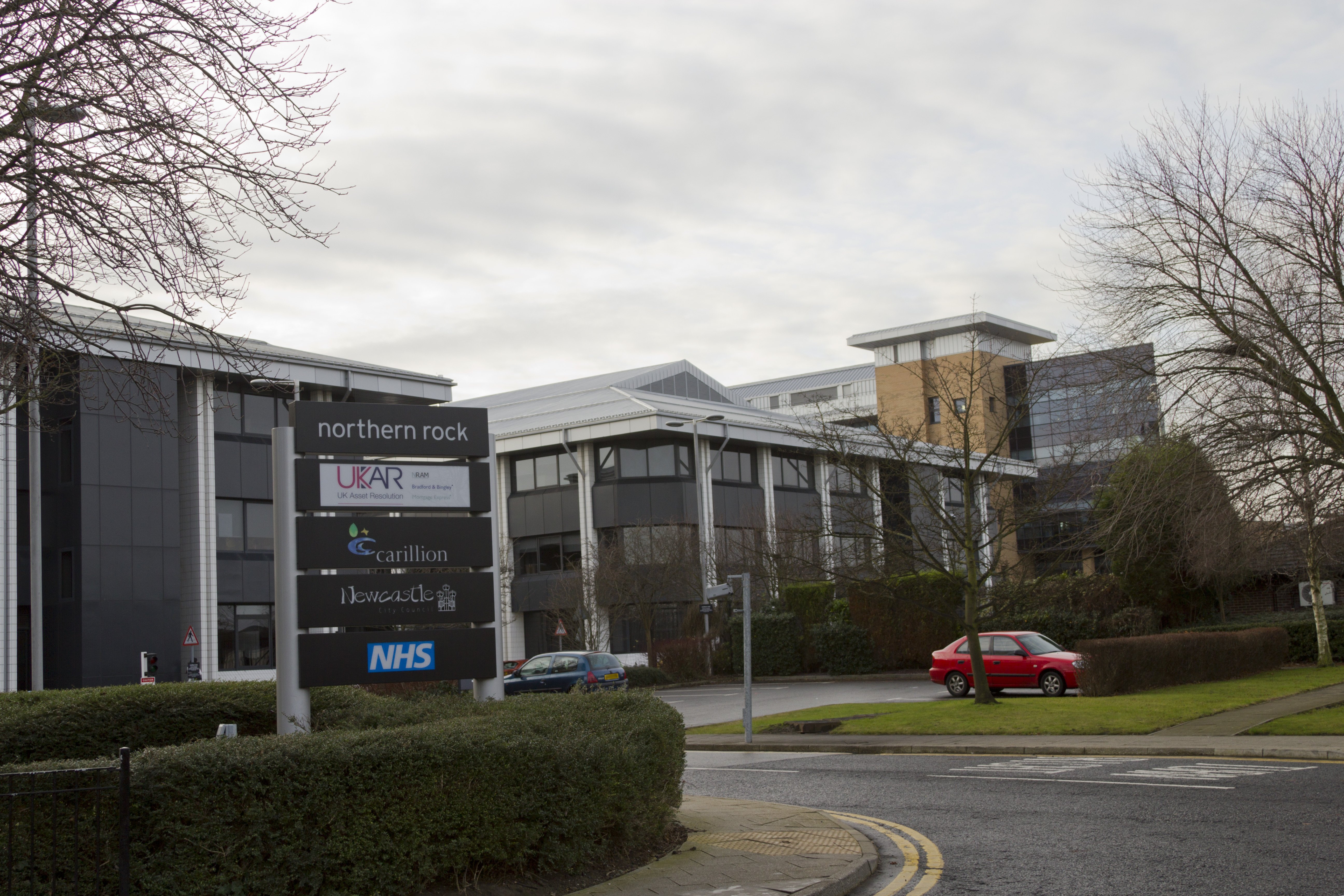 The 1990s and 2000s buildings at the headquarters of the Northern Rock bank. In this image the sign detailing the current tenants of the site shows that along with Northern Rock, UK Asset Resolution (UKAR - NRAM and Bradford & Bingley), Carillion (based in Partnership House - building not in this image), Newcastle City Council and the NHS also have operations here.